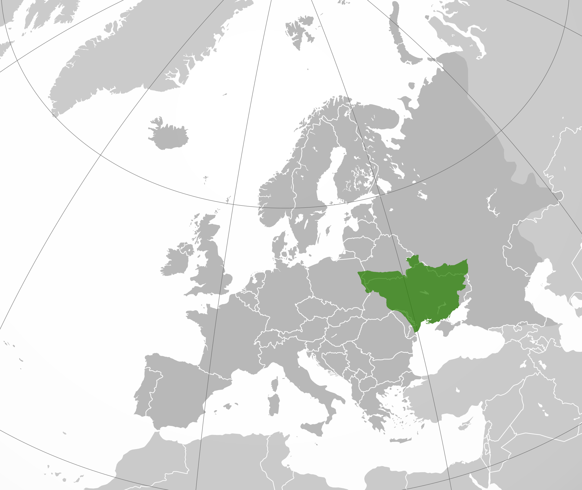 Historical map of the UPR